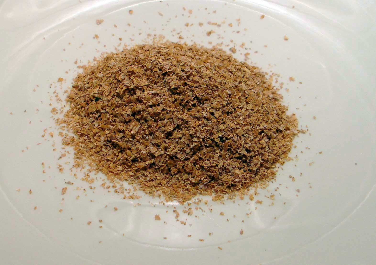 photograph of wheat bran. Taken by me 00:35, 31 January 2006 (UTC)jasper